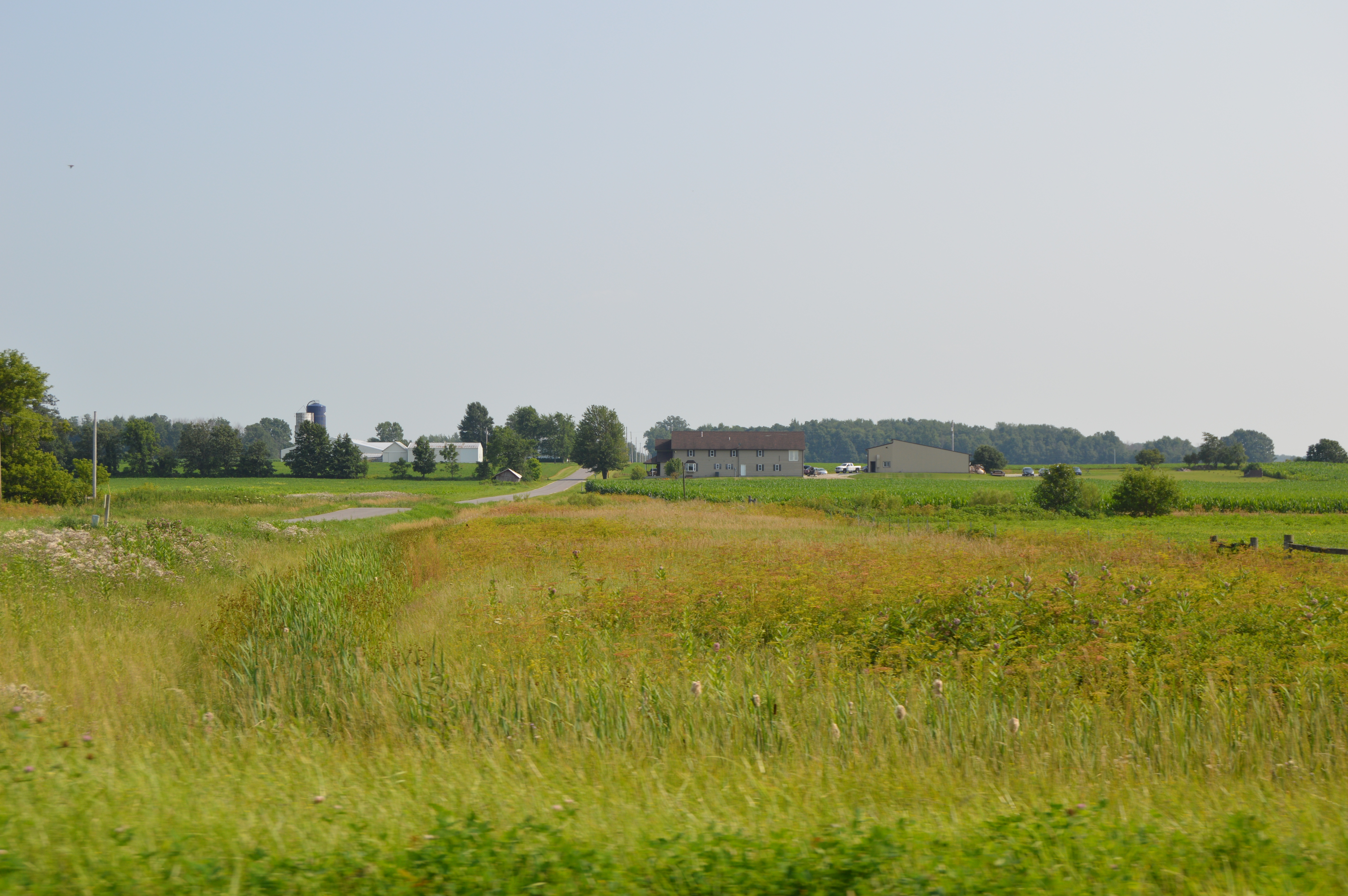 Looking south along Township Road 88 from the Township Road 21 intersection southeast of Vanlue in Ridge Township, Wyandot County, Ohio, United States.